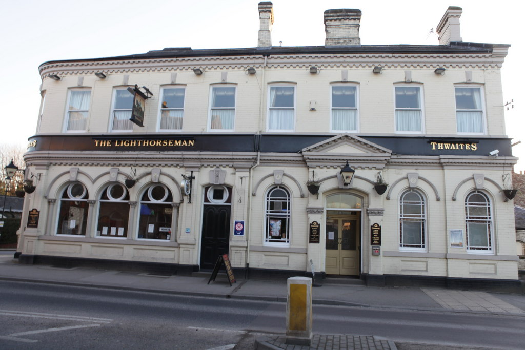 The Lighthorseman Public House, Fulford Road, York For more details about the pub